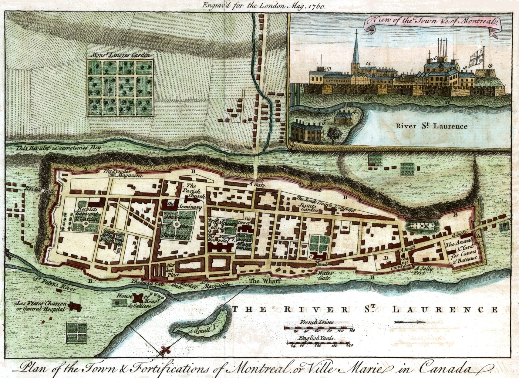 1760 Montreal and its surrounding walls, Bennett. Title: Plan of the Town & Fortifications of Montreal or Ville Marie in Canada. Map Maker: London Magazine. London / 1760. Hand Colored. Size: 10 x 6.5 inches. Detailed plan of Montreal and inset view of the city, from the London Magazine. The street grid, garden names, and some building names are shown. Includes an inset birdseye view of the city.